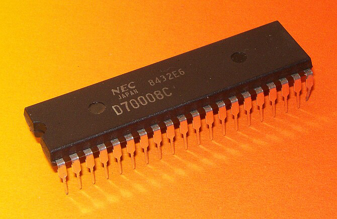 NEC D70008C